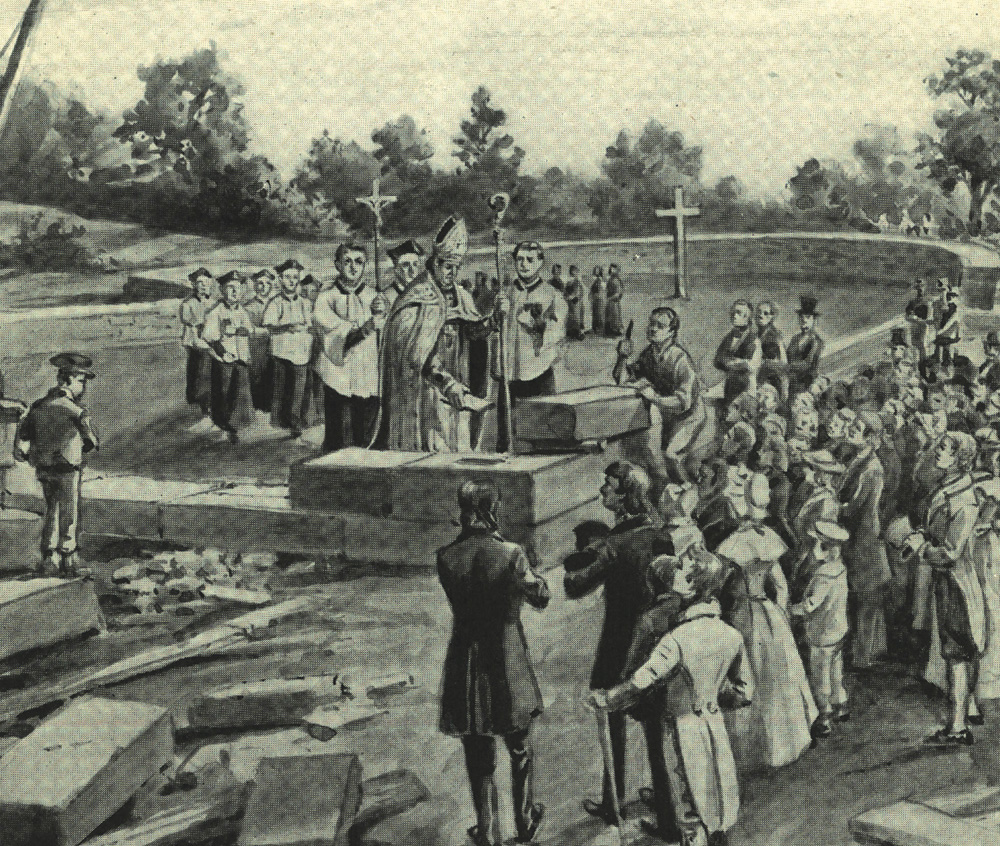 John Carroll, bishop of Baltimore, lays the cornerstone for the Cathedral of the Assumption in Baltimore, the first cathedral in the United States.